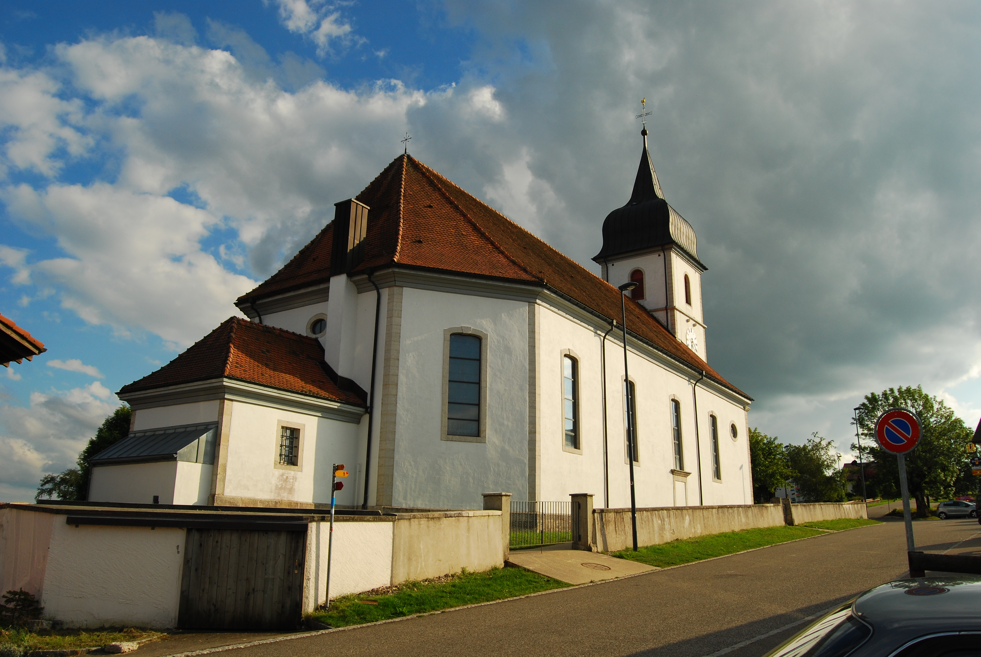 Church of Montfaucon, canton of Jura, SwitzerlandEsperanto: Preĝejo de Montfaucon, Kantono Ĵuraso, Svislando